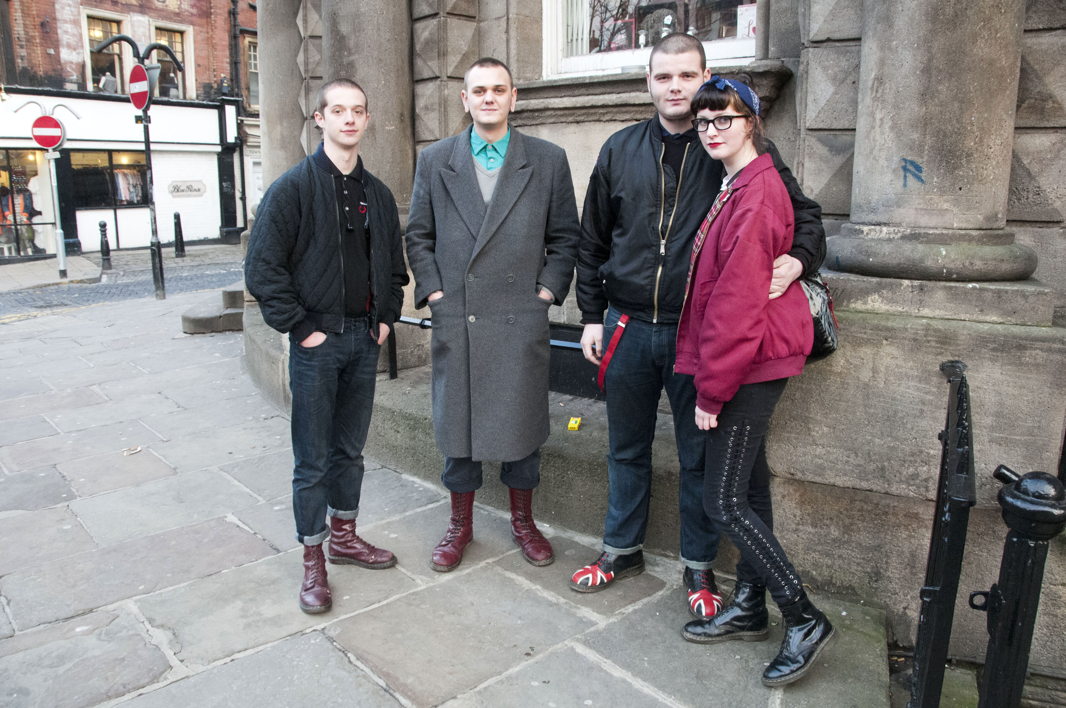 From the series 'Life in the North'